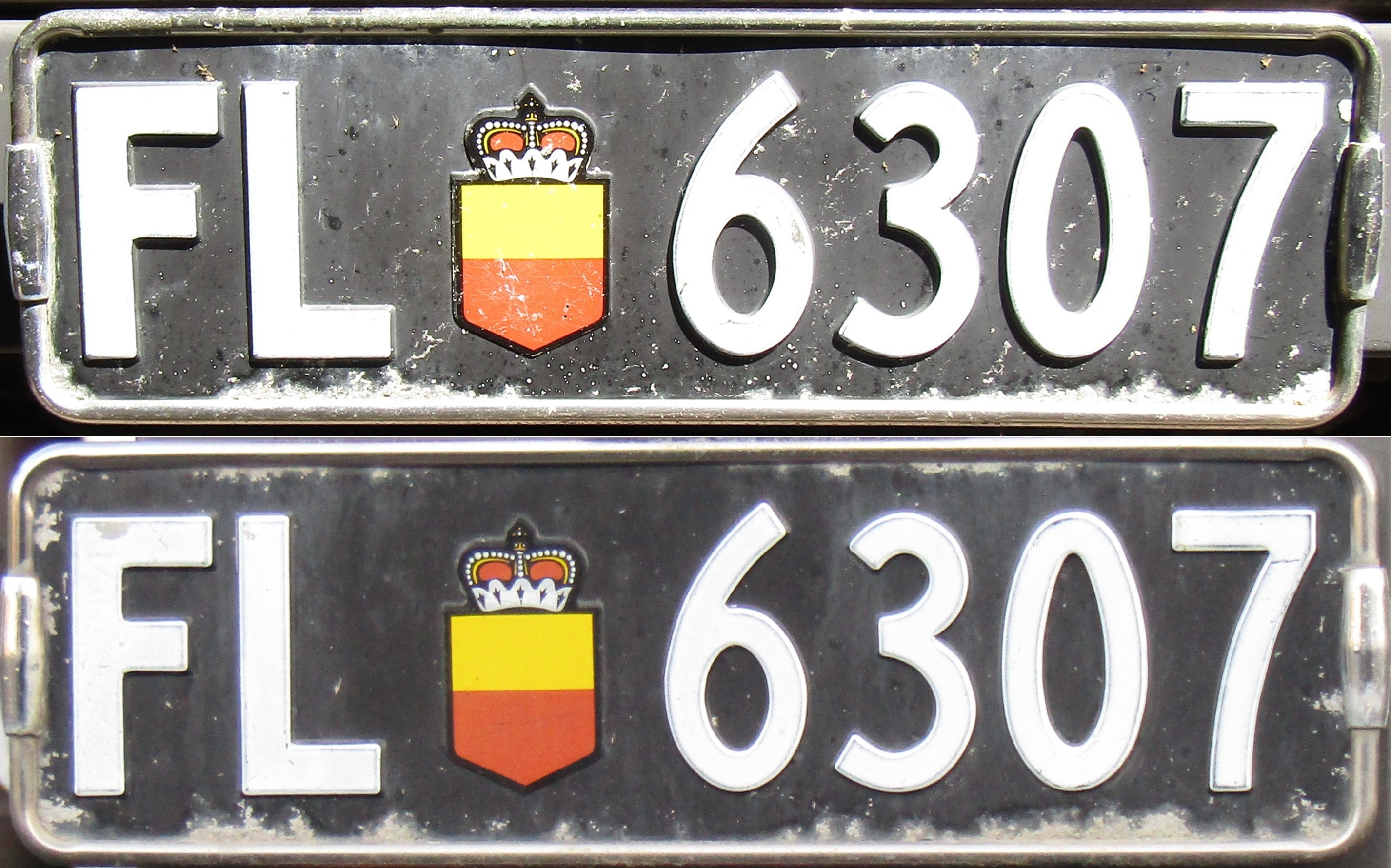 FL 6307 old Liechtenstein plate